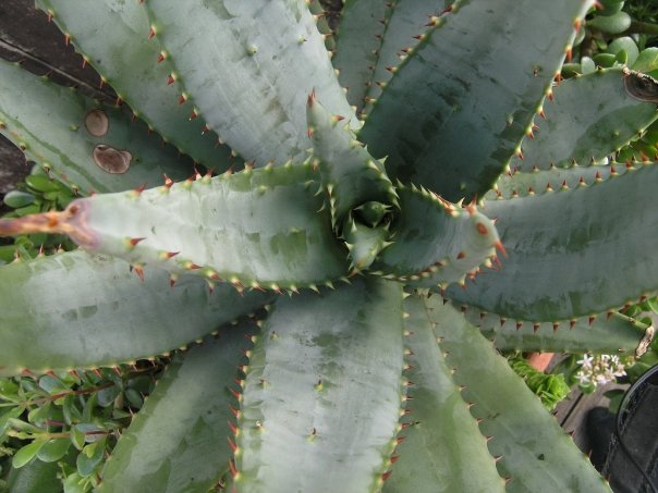 Ngopanie or Prickly Aloe (Aloe aculeata)